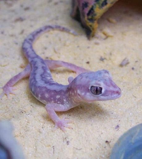 A female of gecko Diplodactylus damaeum.